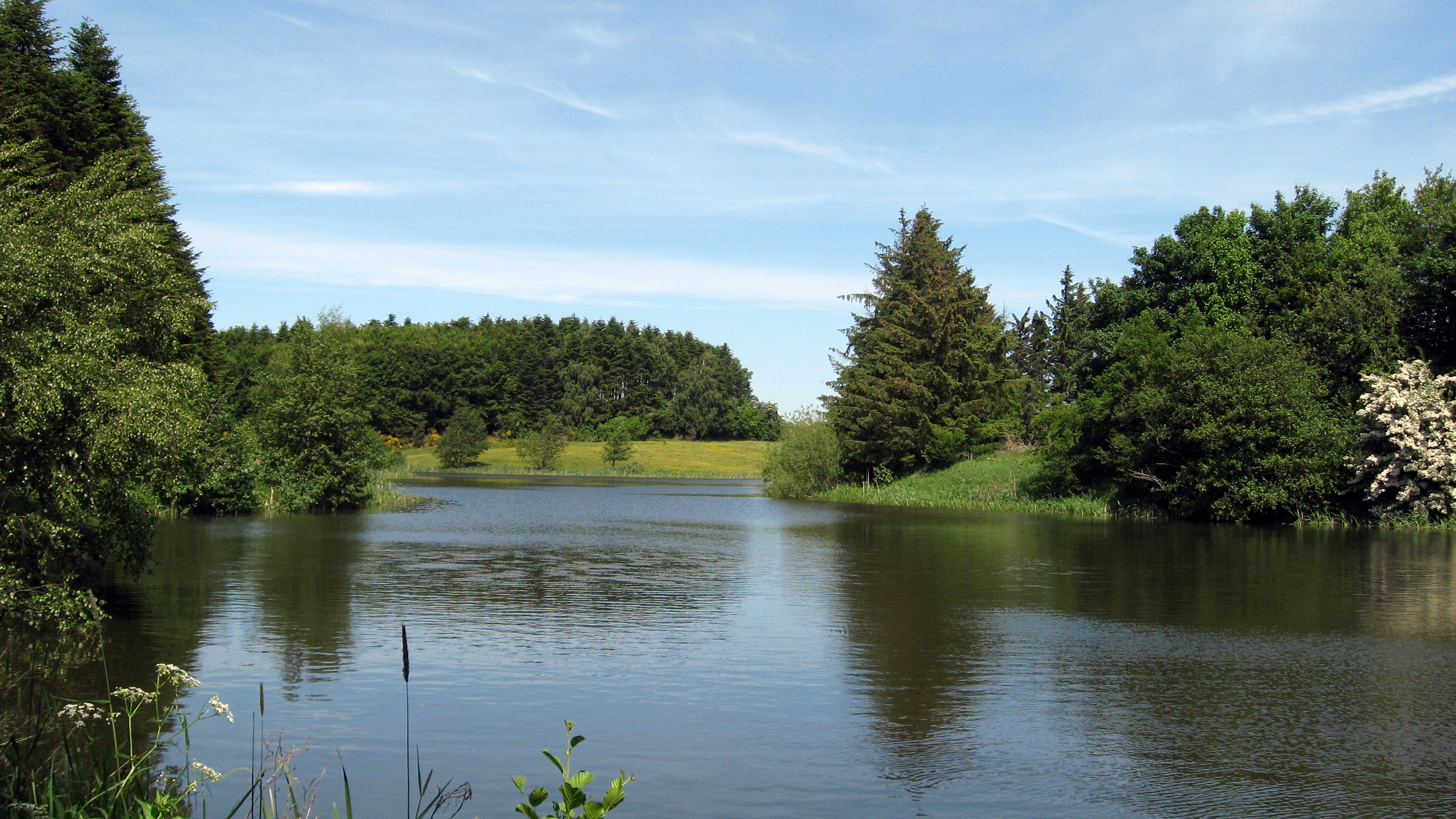 Nols Lake, Saltum, Northern Denmark